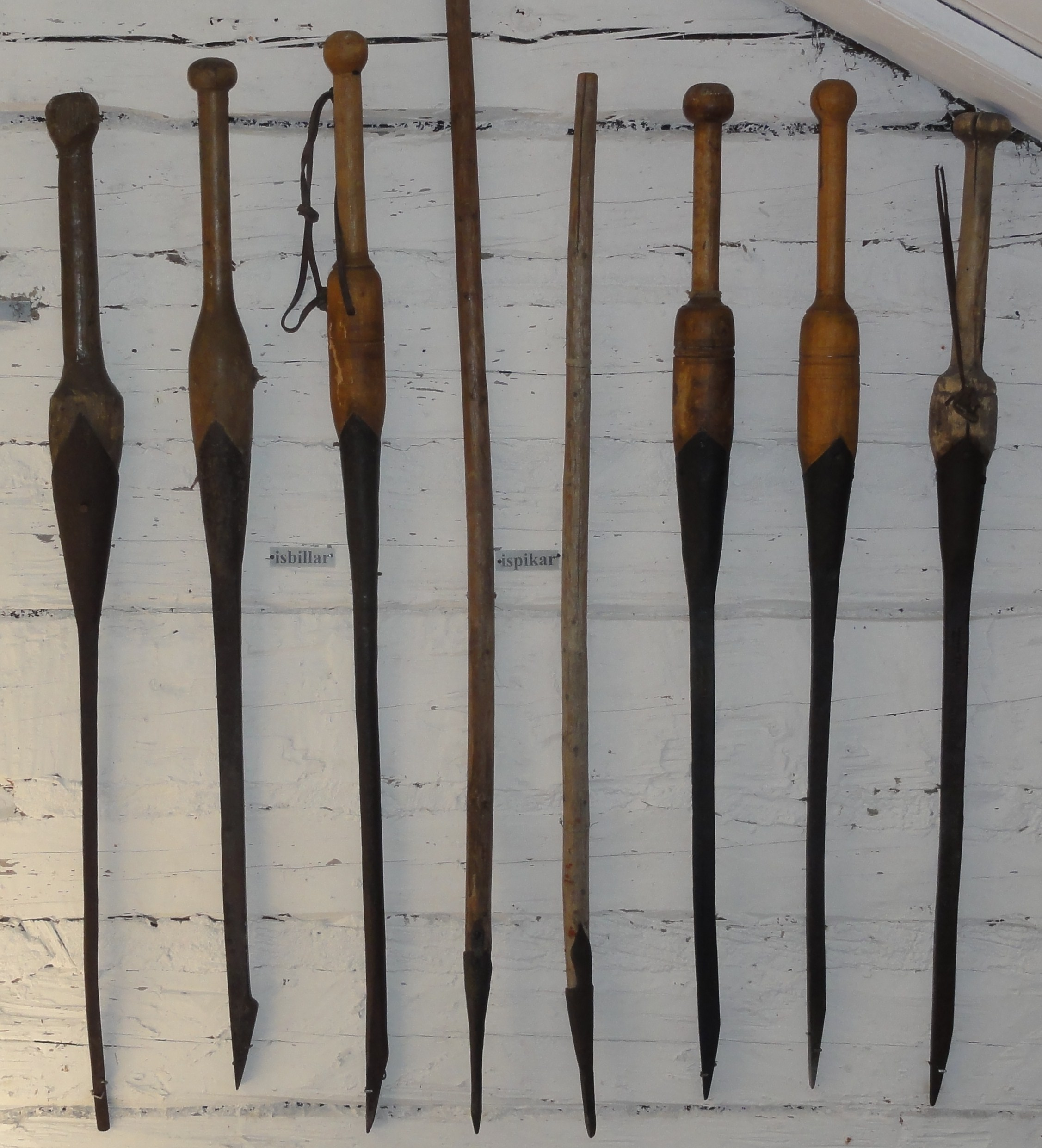 Icepicks manufactured at Wira bruk